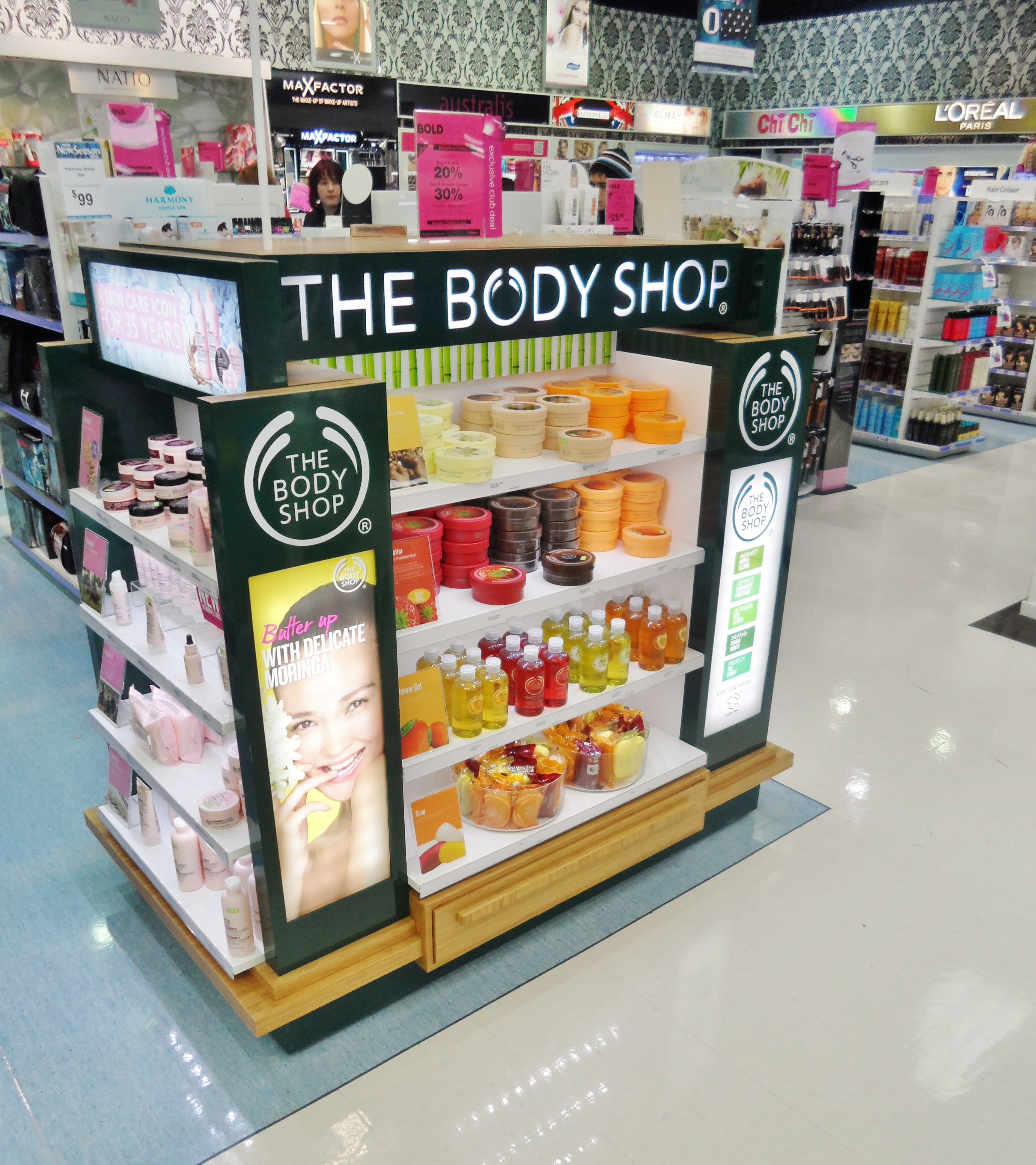 The Body Shop stand in New Zealand department store Farmers in Dunedin in 2013.